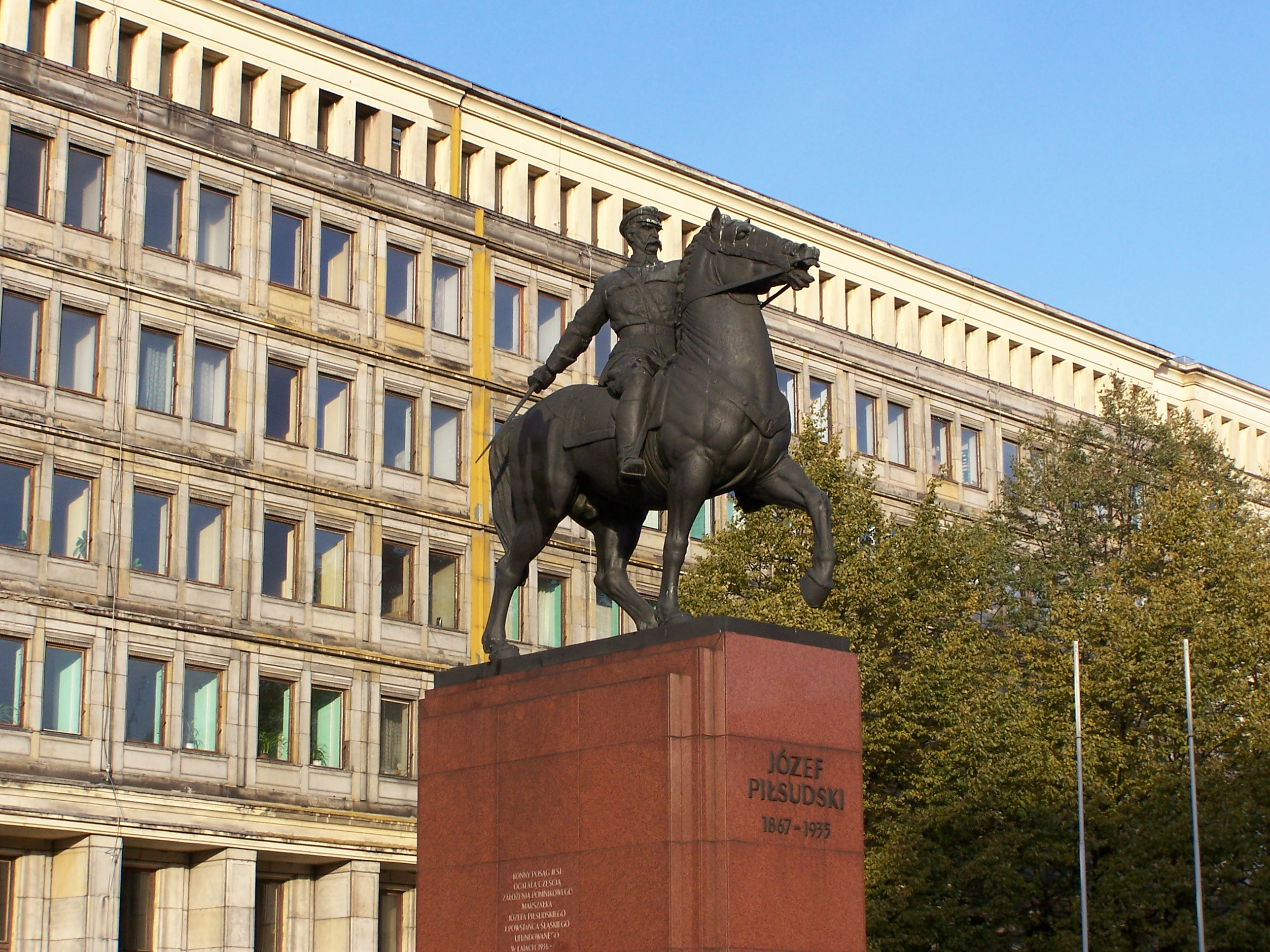 Monument of Józef Piłsudski in Katowice (Poland).